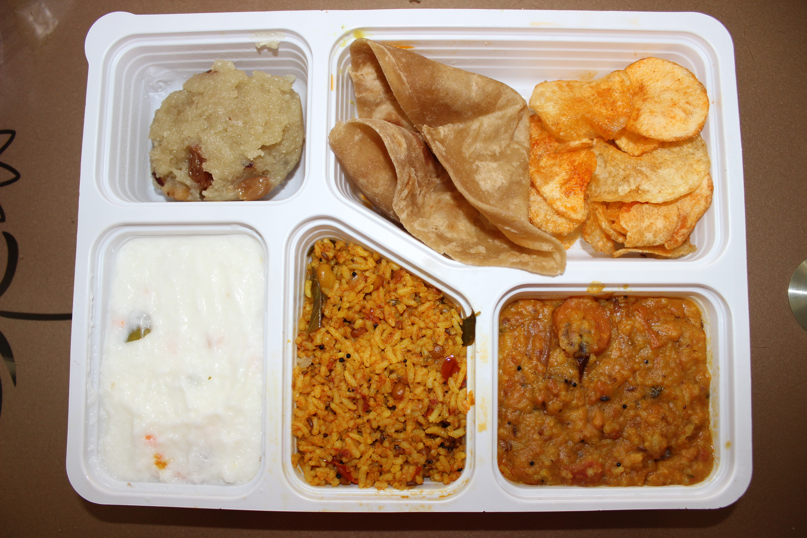 Veg Mini Meals in Tamil Nadu served with Sambar rice,Tamarind rice, Curd rice, Sweet Pongal,Chappathi with gravy and chips.